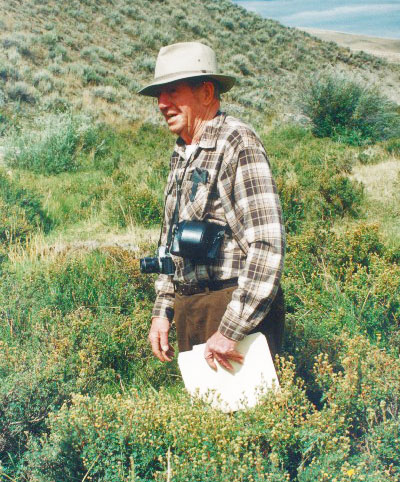 Photograph of Gus Hormay, age 90, doing rest-rotation management consulting field work.